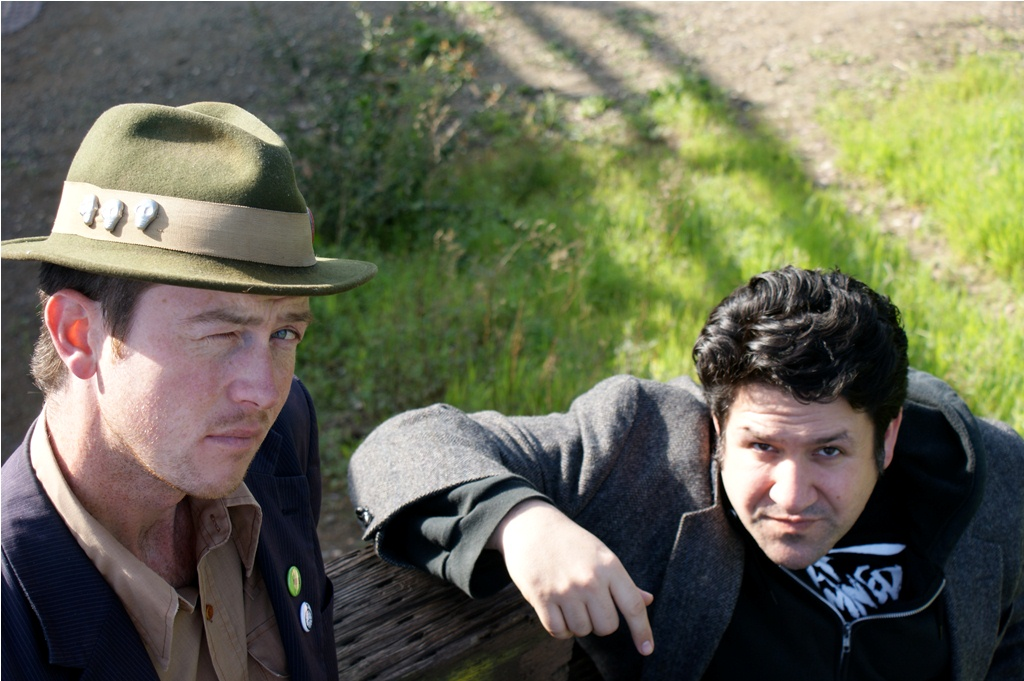 Bobby Joe Ebola and the Children MacNuggits - left to right - Dan Abbott and Corbett Redford